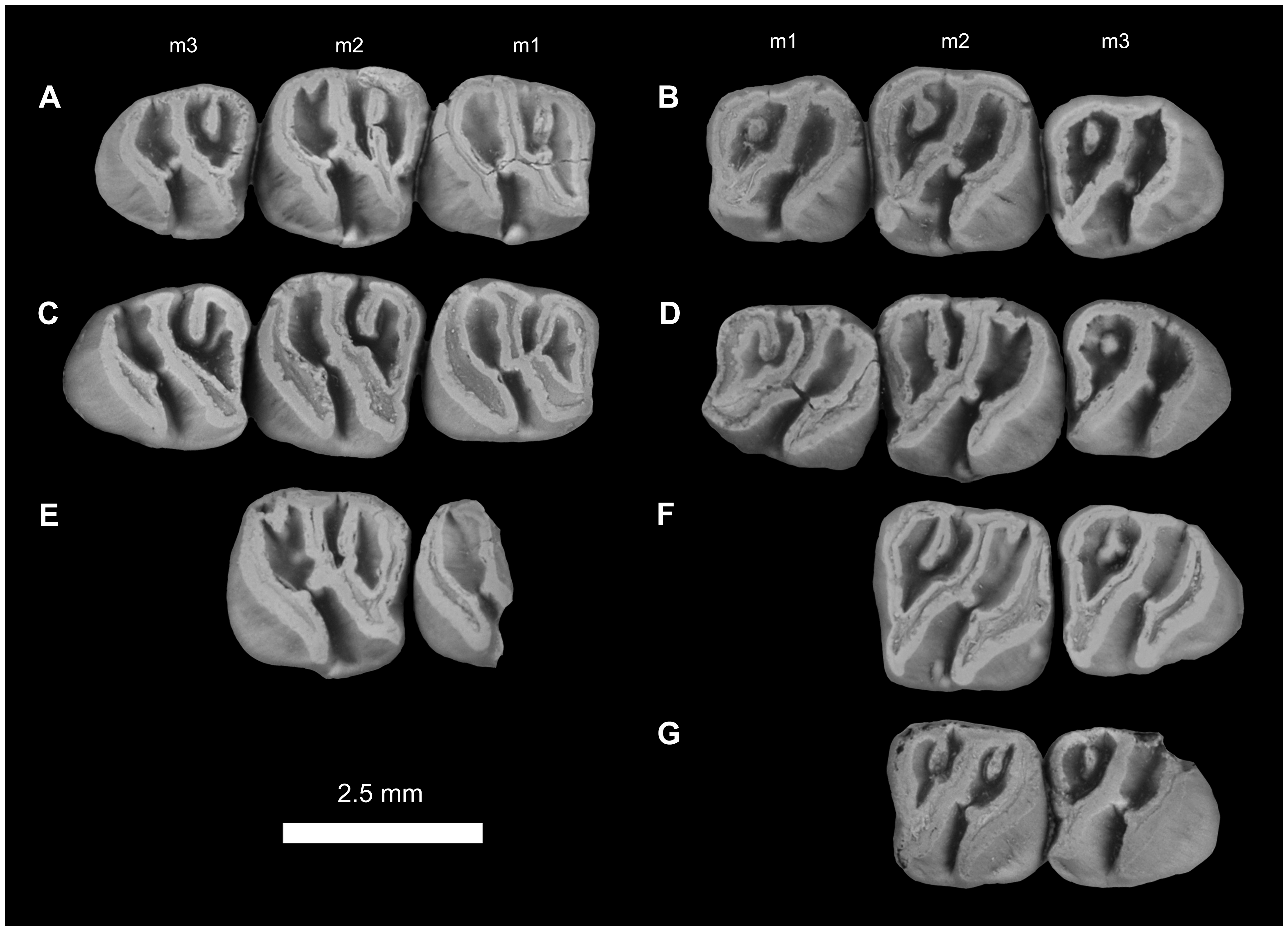 Lower dentitions of Gaudeamus aslius. A, DPC 16550, right M1–3; B, DPC 16627, left M1–3; C, DPC 20513, right M1–3; D, DPC 8196, left M1–3, reversed; E, DPC 9453, right M1–2; F, DPC 17632, left M2–3; G, DPC 8230, right M2–3, reversed.